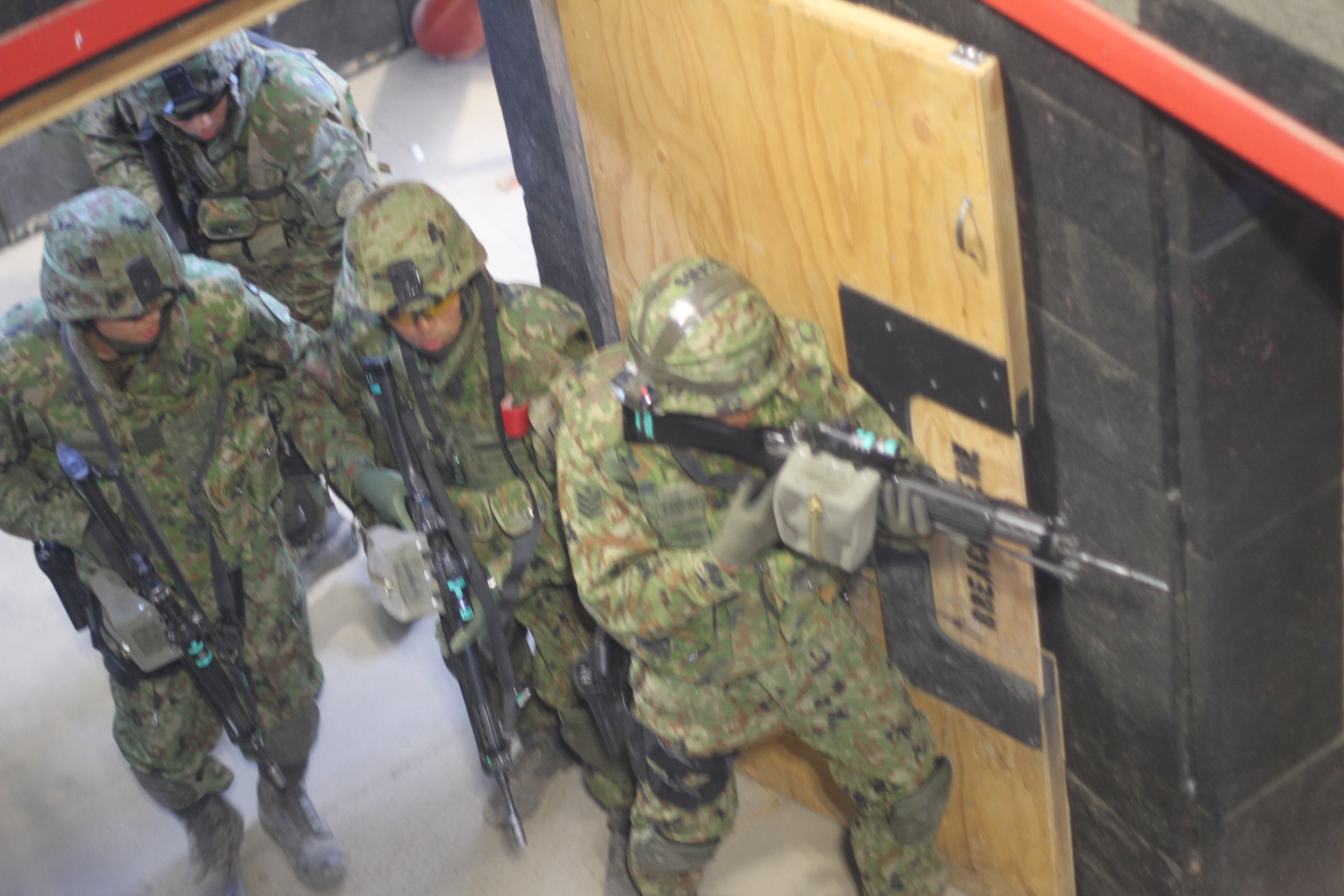 Japanese Army soldiers with the ground self-defense Force train inside a live-fire shoot house during 2014 Rising Thunder exercises at Yakima Training Center, Sept. 4, 2014. Rising Thunder is a U.S. Army-hosted exercise designed to build interoperability between I Corps, the 7th Infantry Division and the Japan Ground Self-Defense Force.